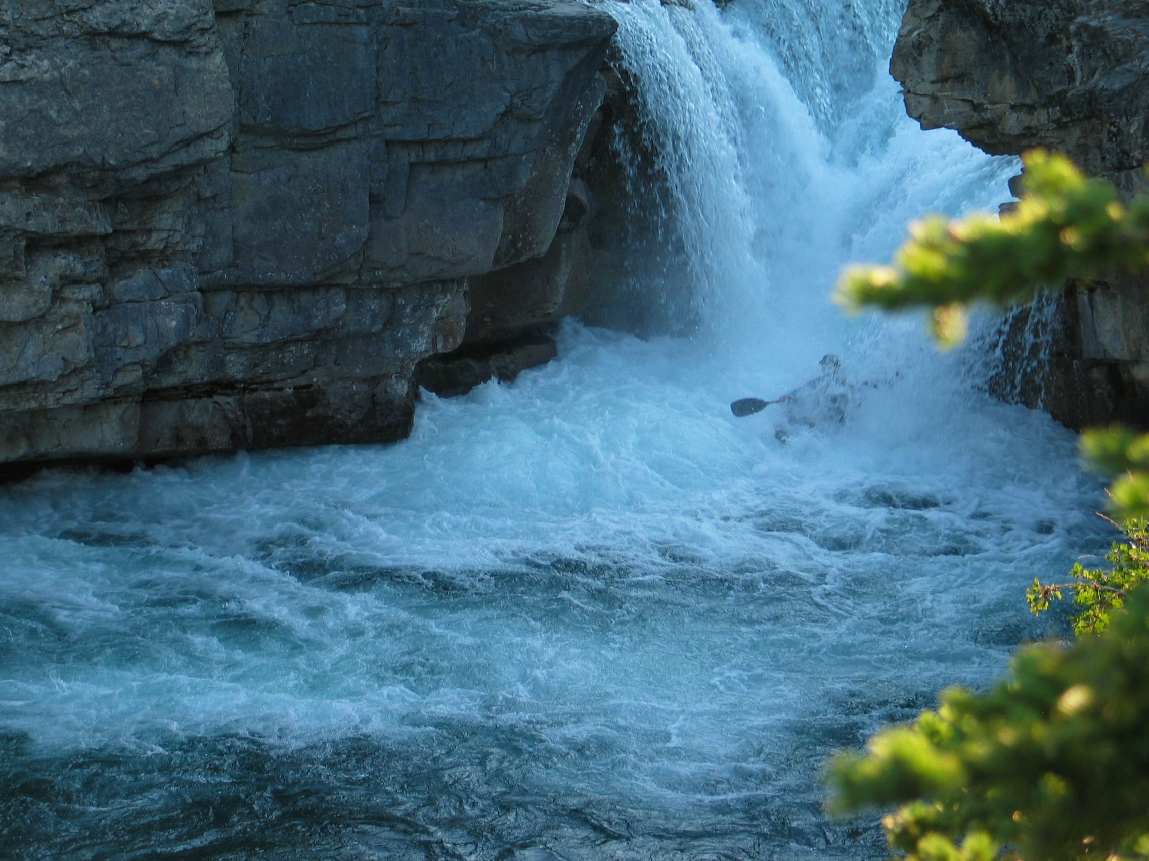 Kayaker going over Elbow Falls (Kananaskis, Alberta, Canada) on July 28, 2007.